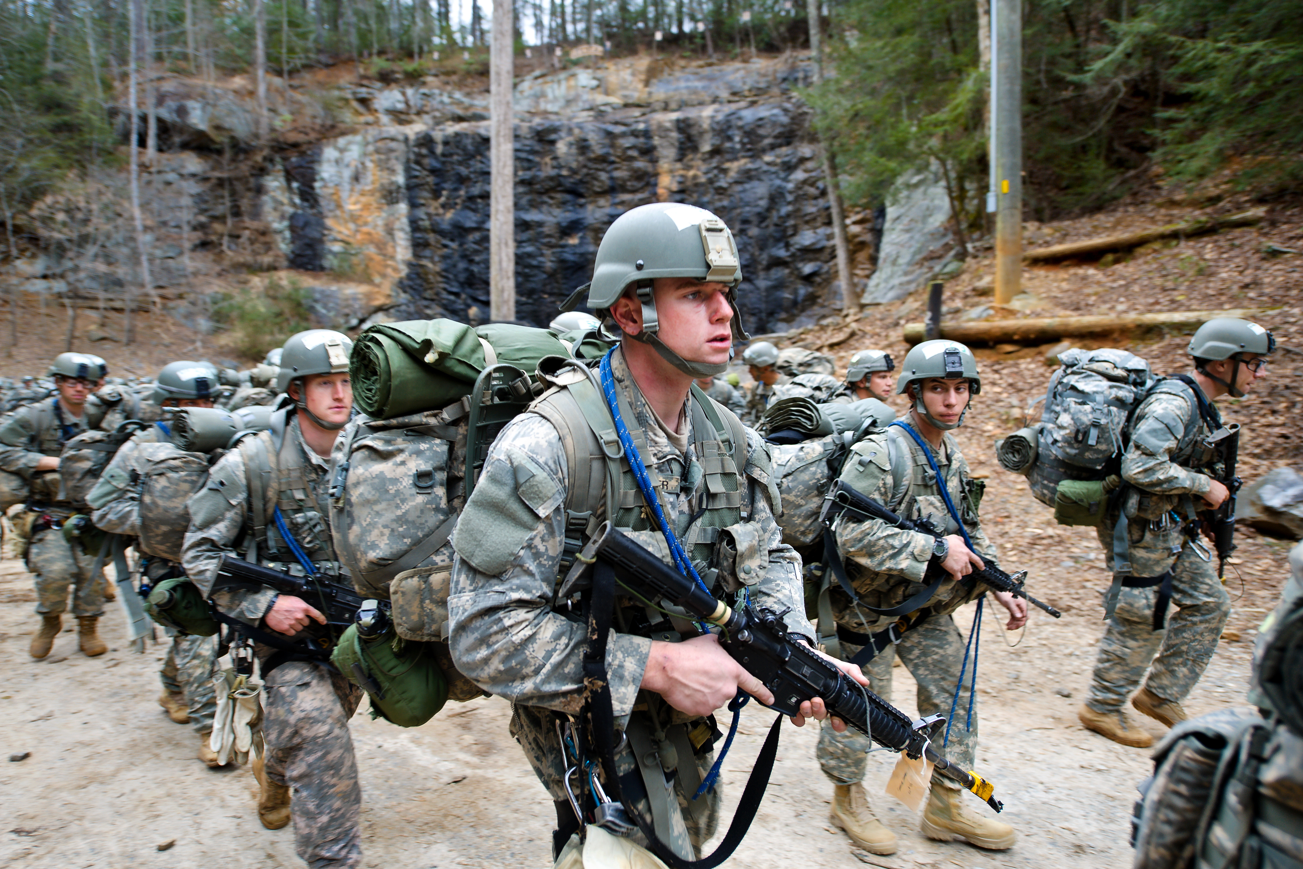 Army Rangers march to the next phase of their training after completing rappelling and knot tying exercises on Camp Frank D. Merrill, in Dahlonega, Ga., Feb. 20, 2011.